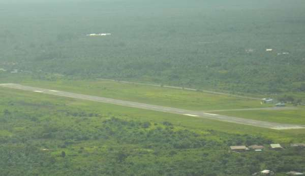 Aerial view of Mukomuko Airport, Bengkulu province, Indonesia.